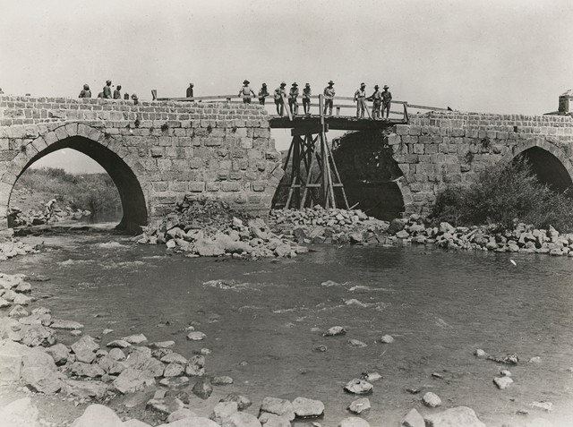 Jisr Benat Yakub, Palestine. c. 1918. British and Australian Army soldiers and some local civilians standing on the Bridge of the Daughters of Jacob over the River Jordan, destroyed by the Turks in their flight from Tiberias to Damascus. Other information Photo in the public domain access unrestricted